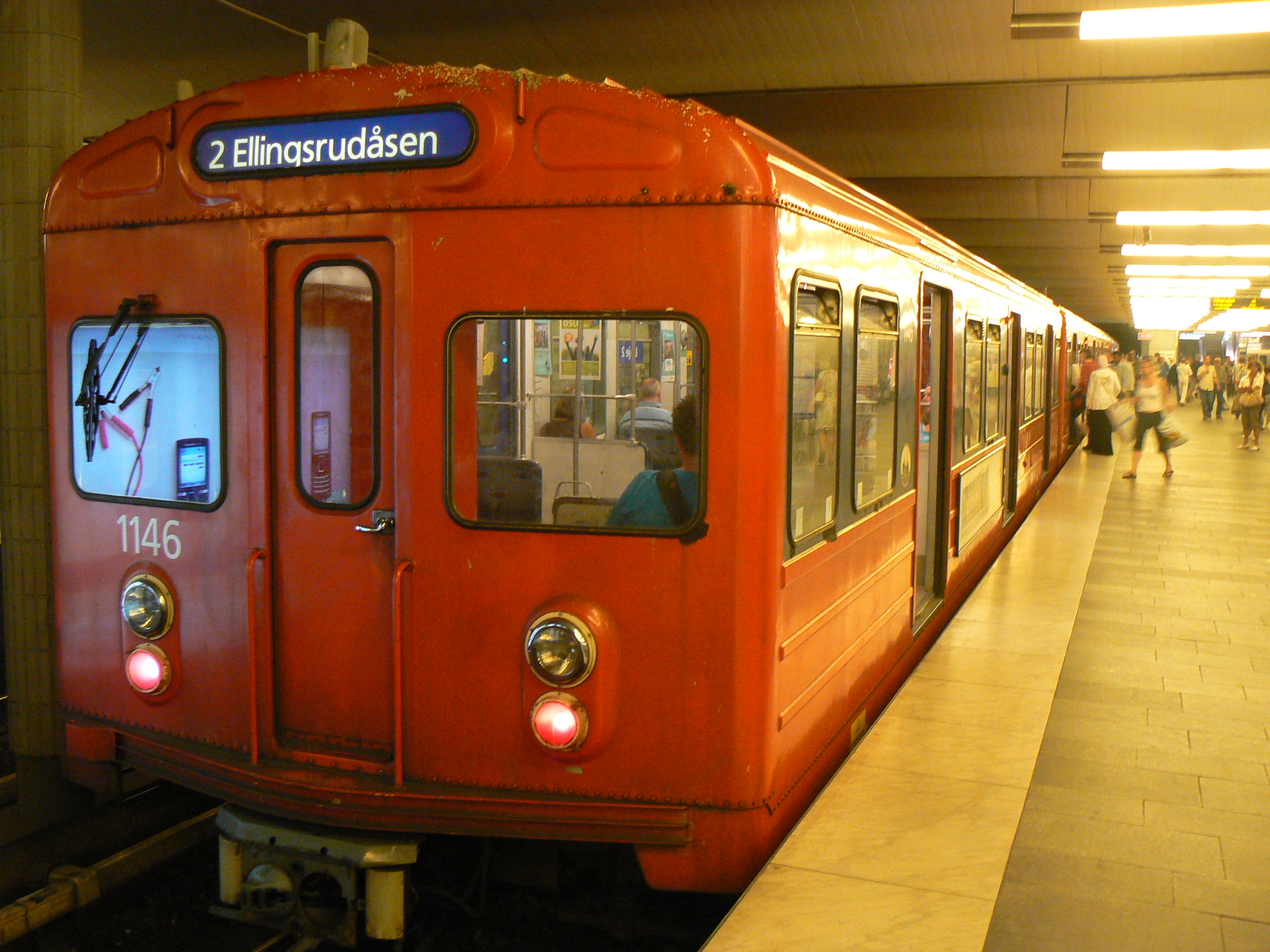 Underground/subway train T1000 at Jernbanetorget station, Oslo.